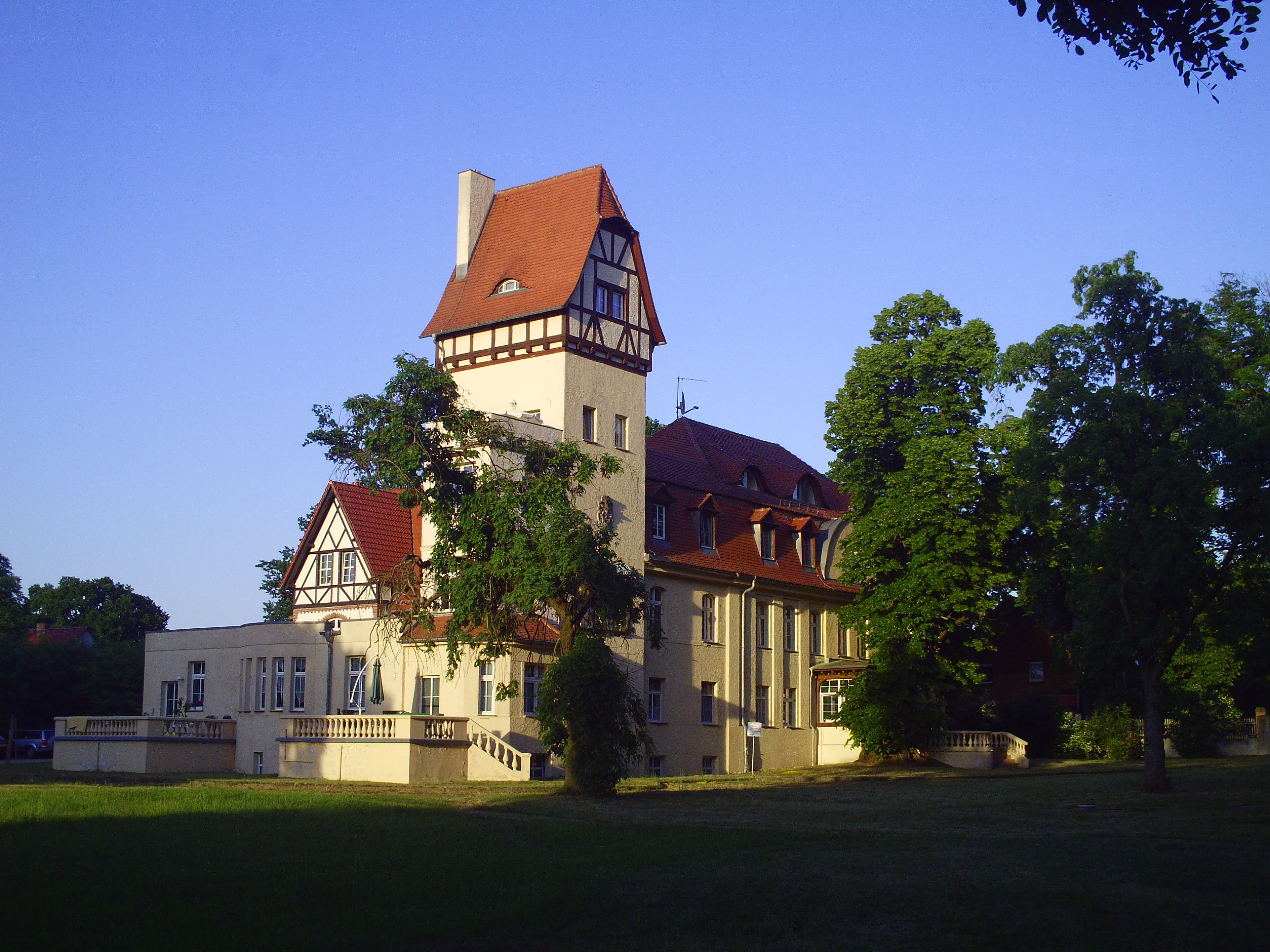 Lieskauer Dorfstrasse 13 Spremberg